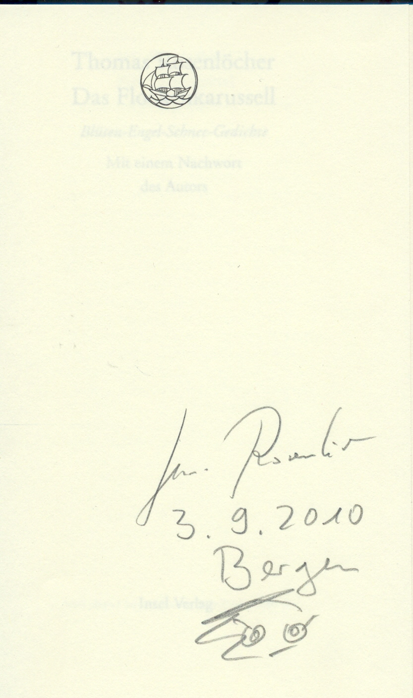 Autograph from Thomas Rosenloecher, German writer, 2010 in Frankfurt am Main, Germany.